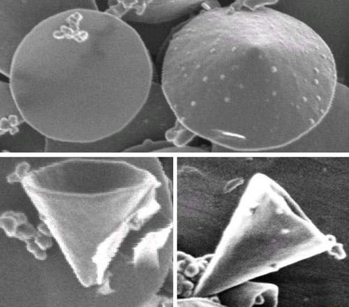 SEM image of carbon nanocones (maximum diameter ~1 micrometer) produced by pyrolysis of heavy oil in the Kvaerner Carbon Black & Hydrogen Process. Category:Nanocone Category:Nanomaterials (2009). "Carbon nanocones: wall structure and morphology" (free download). Science and Technology of Advanced Materials 10: 065002.